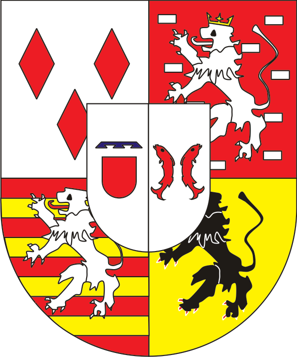 coats of arms of the princes of Salm-Reifferscheid-Raitz (1790); 1: lordship of Dyck; 2: lordship of Bedbur; 3: lordship of Alfter; 4: lordship of Hackenbroich; Heart: a: county of Lower Salm; b: lordship of Reifferscheid